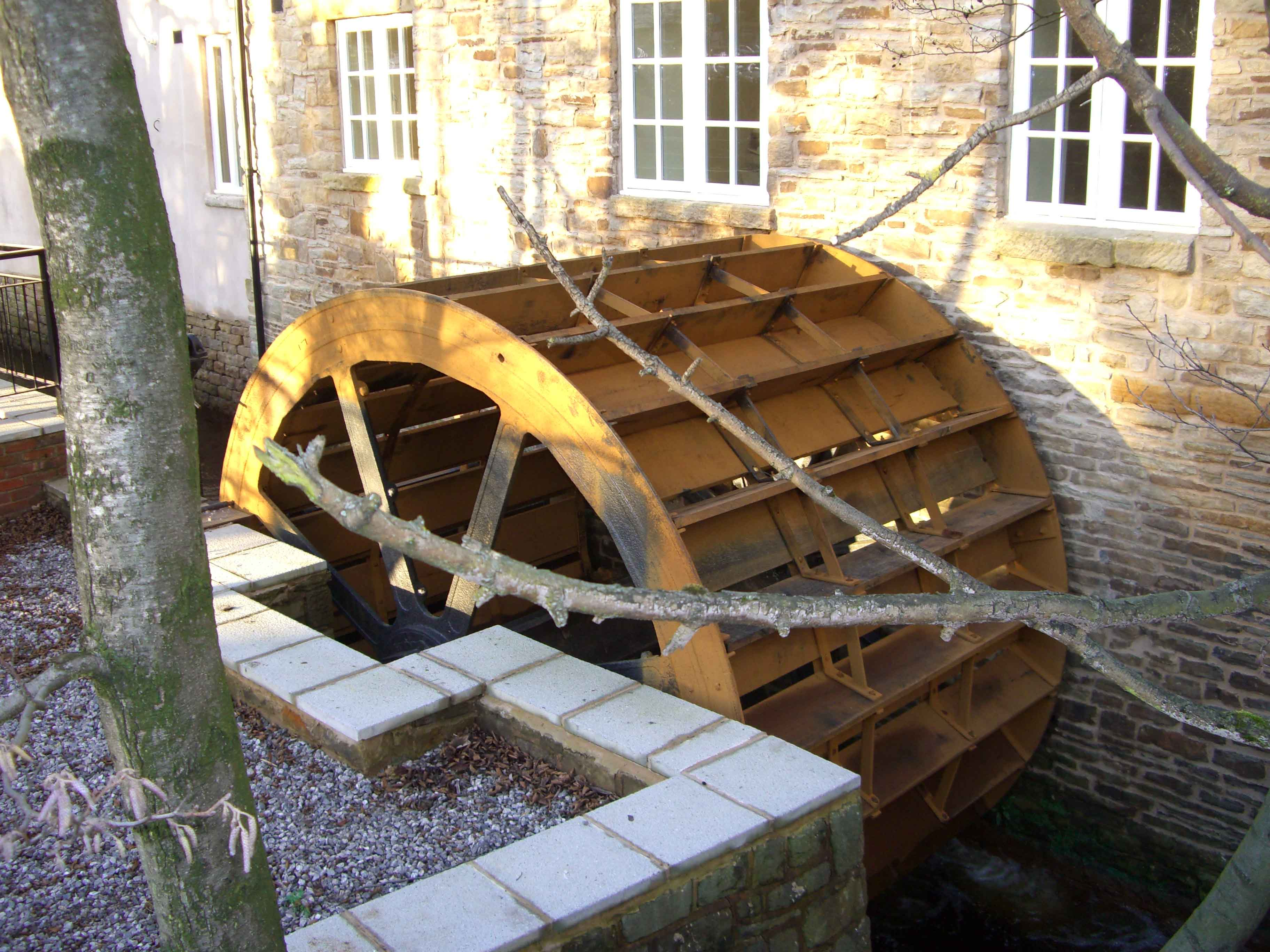 The restored corn mill waterwheel at Malin Bridge in Sheffield